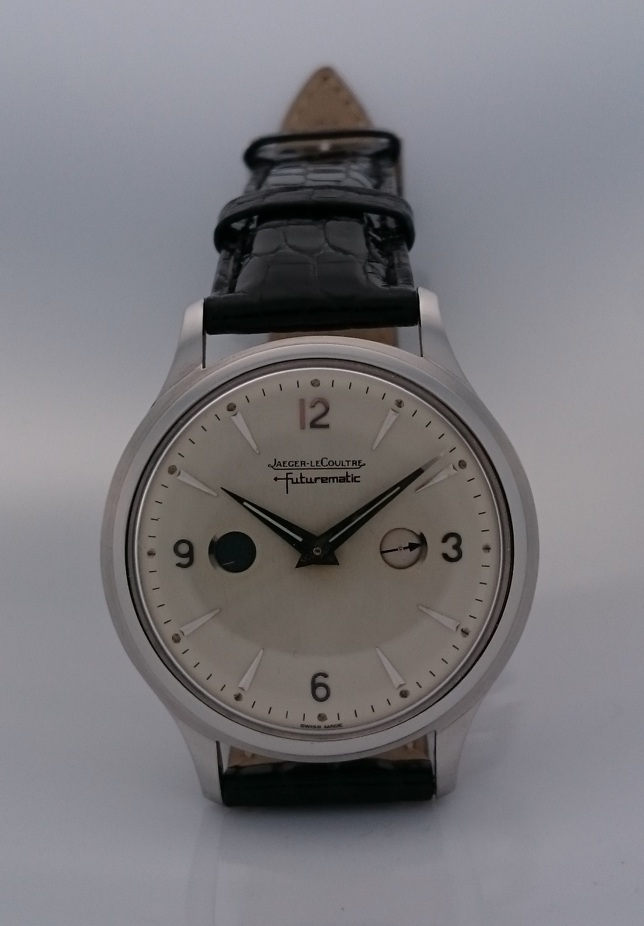 1950's automatic watch Jaeger-LeCoultre E502 Futurematic